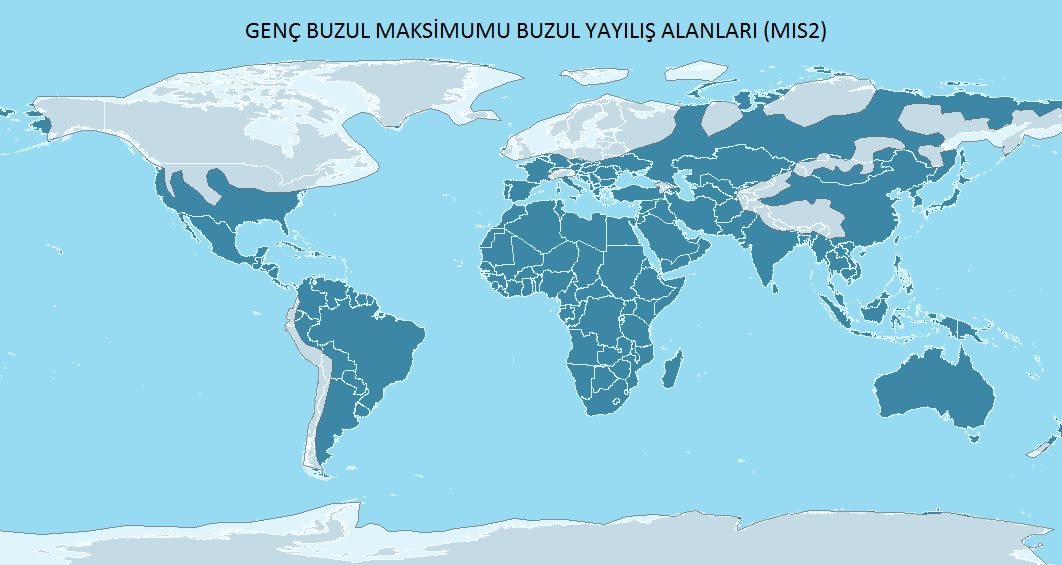 MIS 2'de Buzul Yayılış Bölgeleri